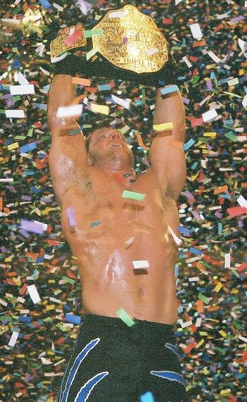 A picture of Chris Benoit, after winning the World Heavyweight Championship from Triple H at WrestleMania XX.